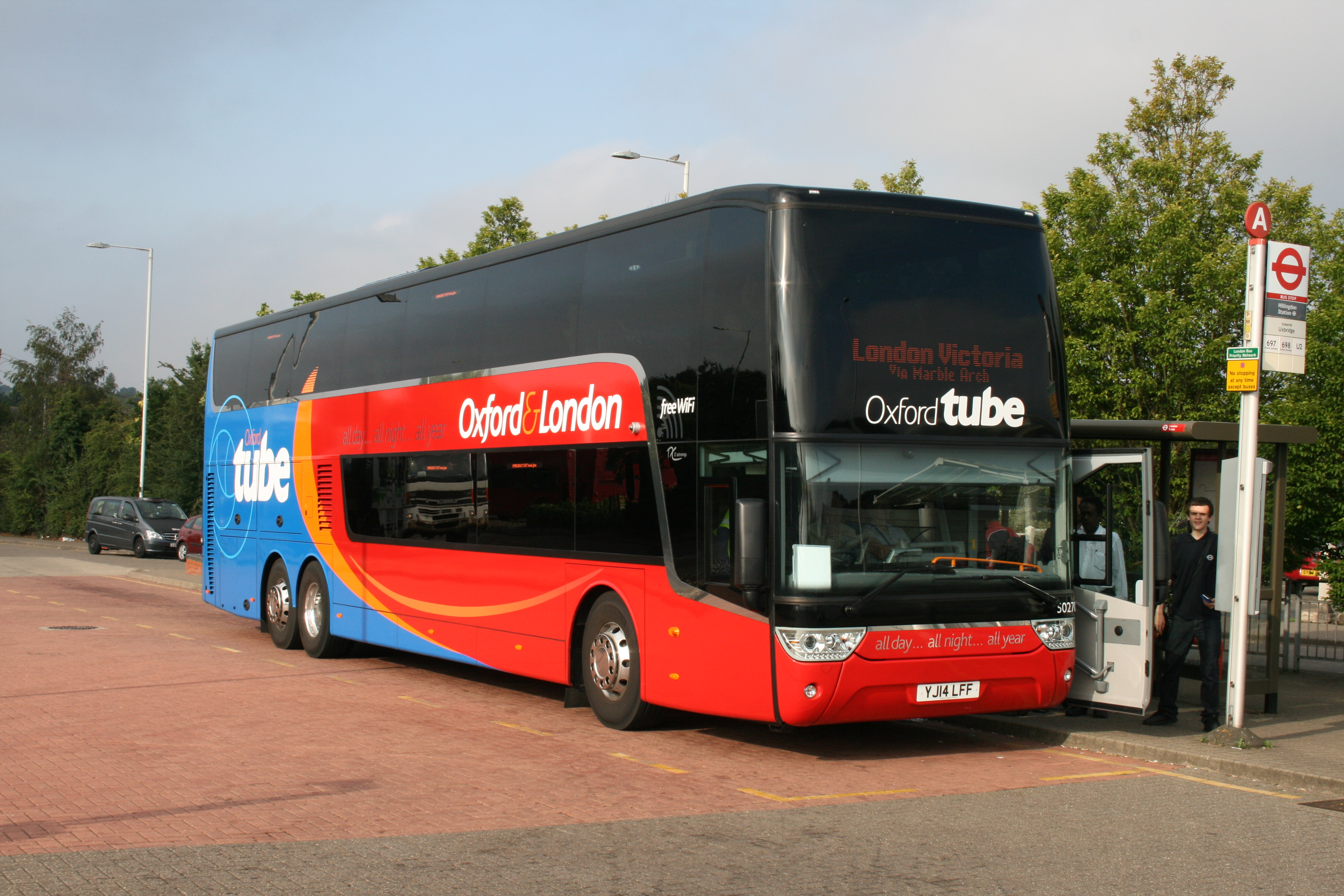 An Oxford Tube coach at Hillingdon Underground station, Middlesex. The coach is a Van Hool Astromega, registration mark YJ14 LFF, fleet number 50270.